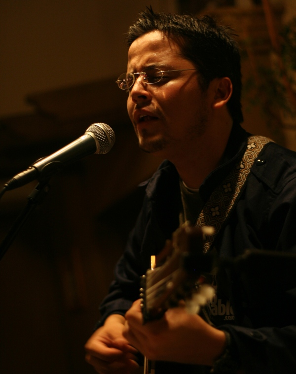 The troubadour Gerardo Pablo in a live jam session